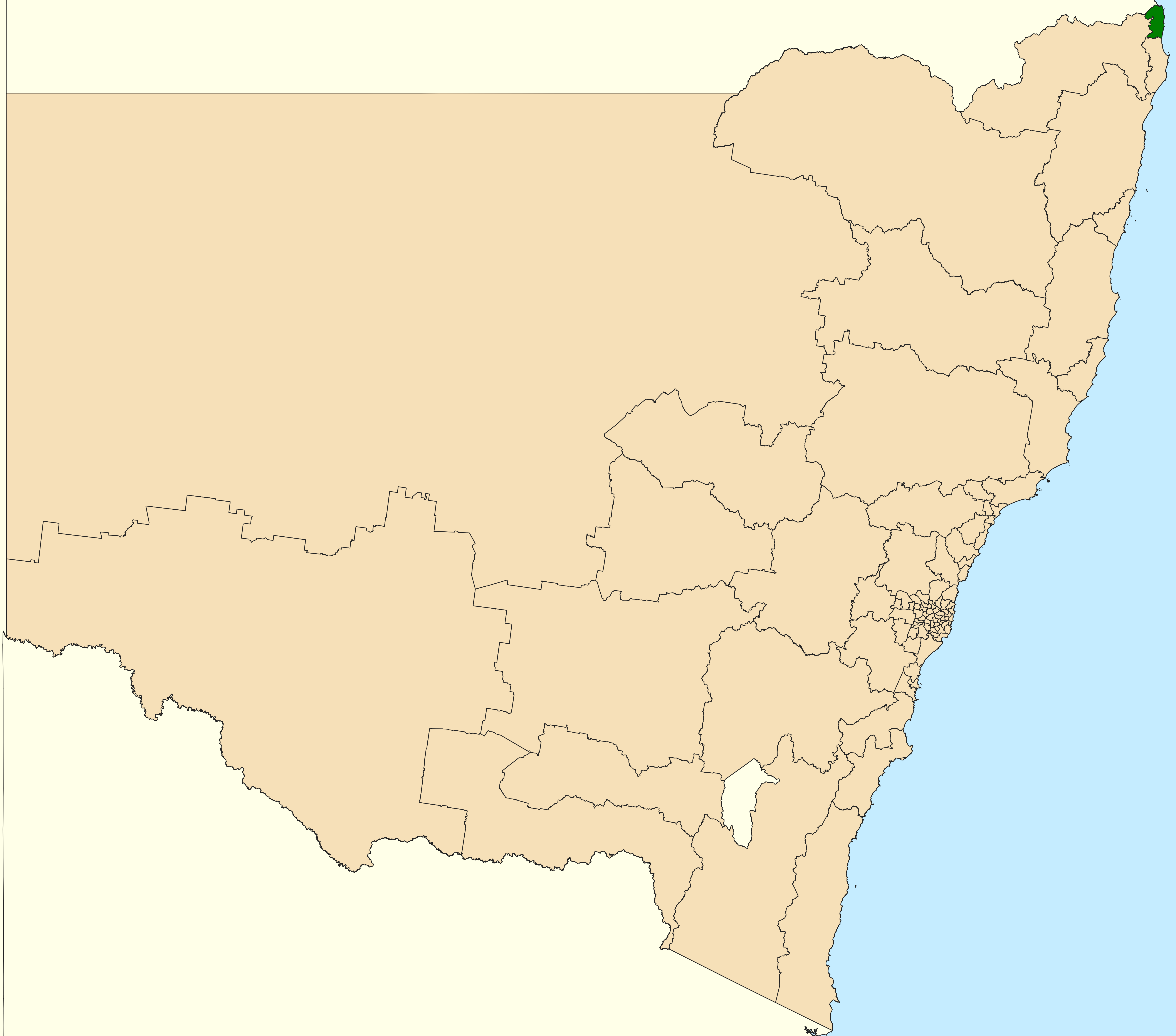 Location of the state electoral district of Tweed (dark green) in New South Wales as of the 2019 New South Wales state election. Incorporates or developed using Administrative Boundaries ©PSMA Australia Limited licensed by the Commonwealth of Australia under Creative Commons Attribution 4.0 International licence (CC BY 4.0).